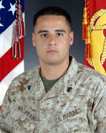 Cesar Armando Laurean